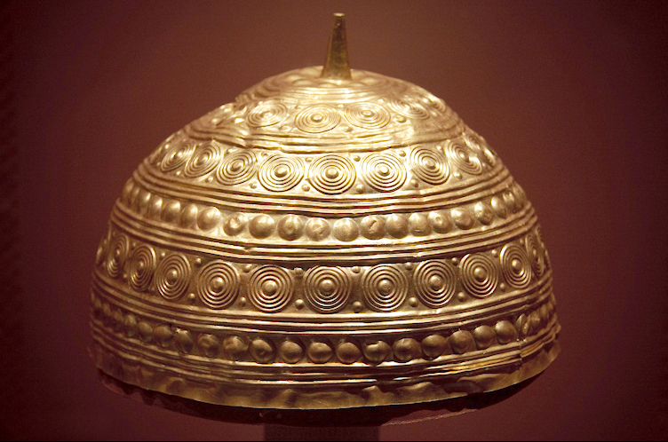 Helmet from Leiro. Museo de San Antón, A Coruña.